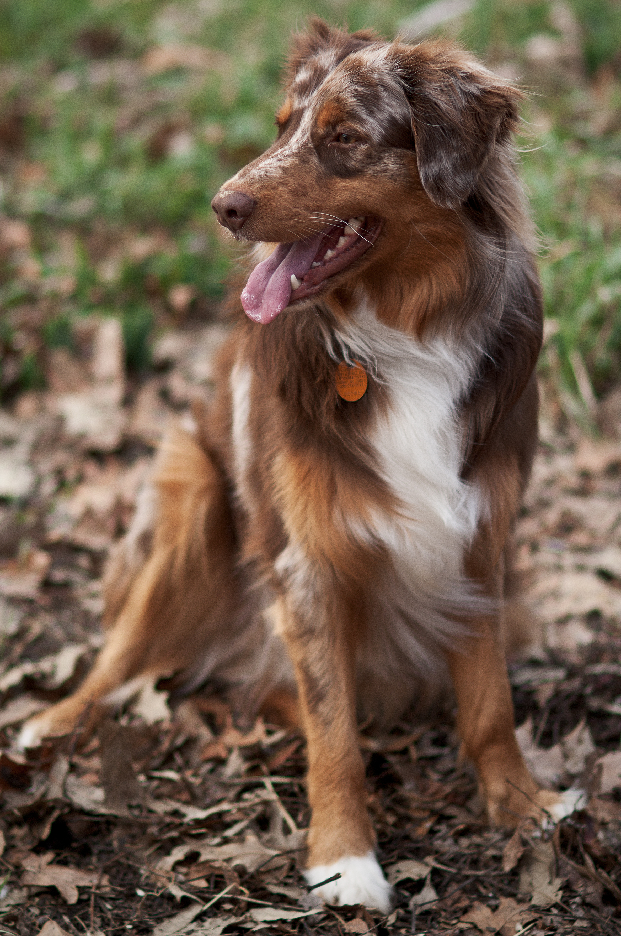 Australian Shepherd